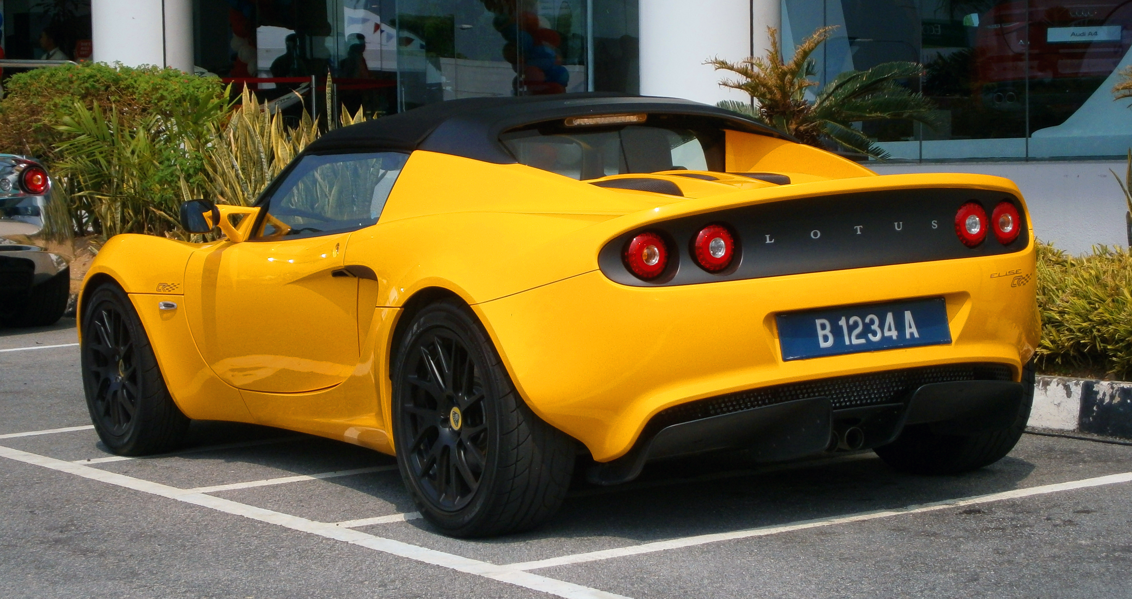 2014 Lotus Elise CR in Glenmarie, Malaysia. Designed & Assembled in the United Kingdom